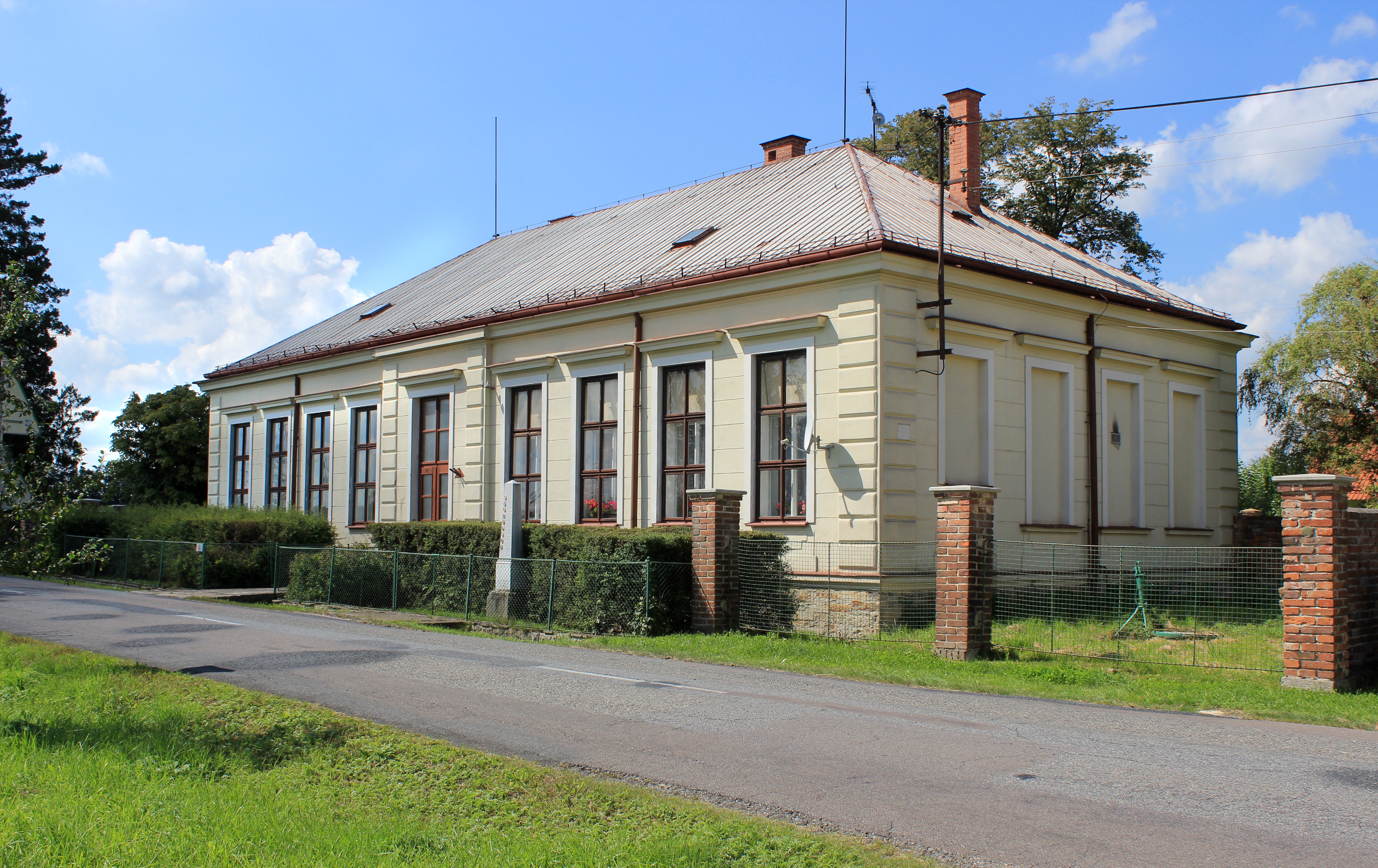 Old municipal office in Chotovice, Czech Republic.